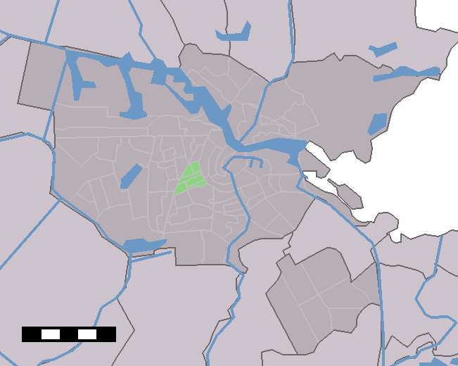 Location of neighbourhoods/districts in Amsterdam